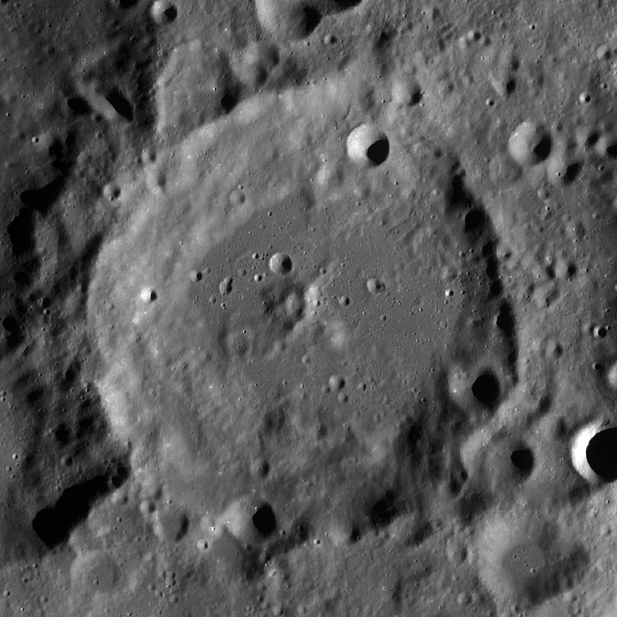 Evershed crater, on the far side of the moon. LRO Wide Angle Camera mosaic.